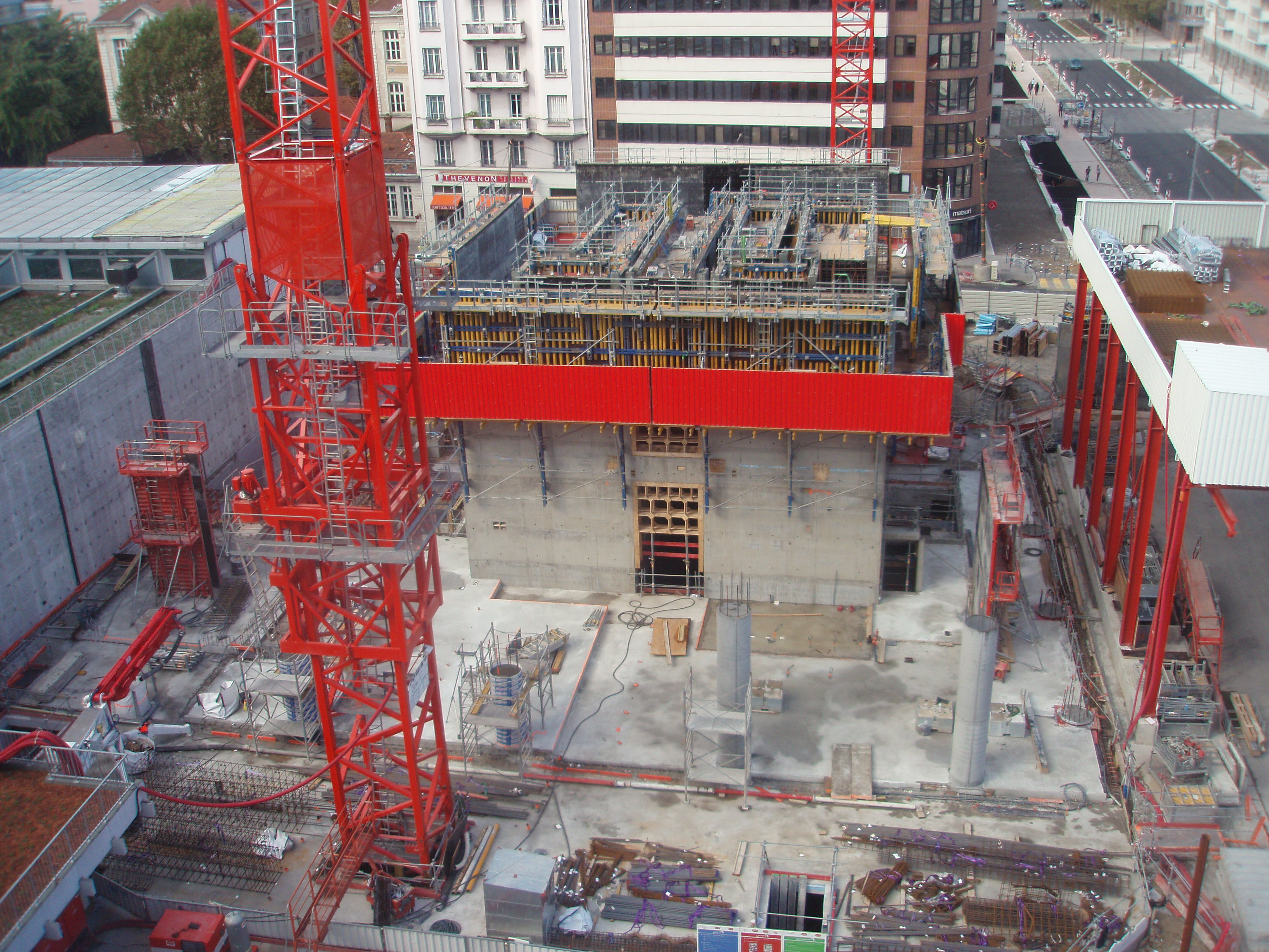 Incity tower under construction 10/05/2013